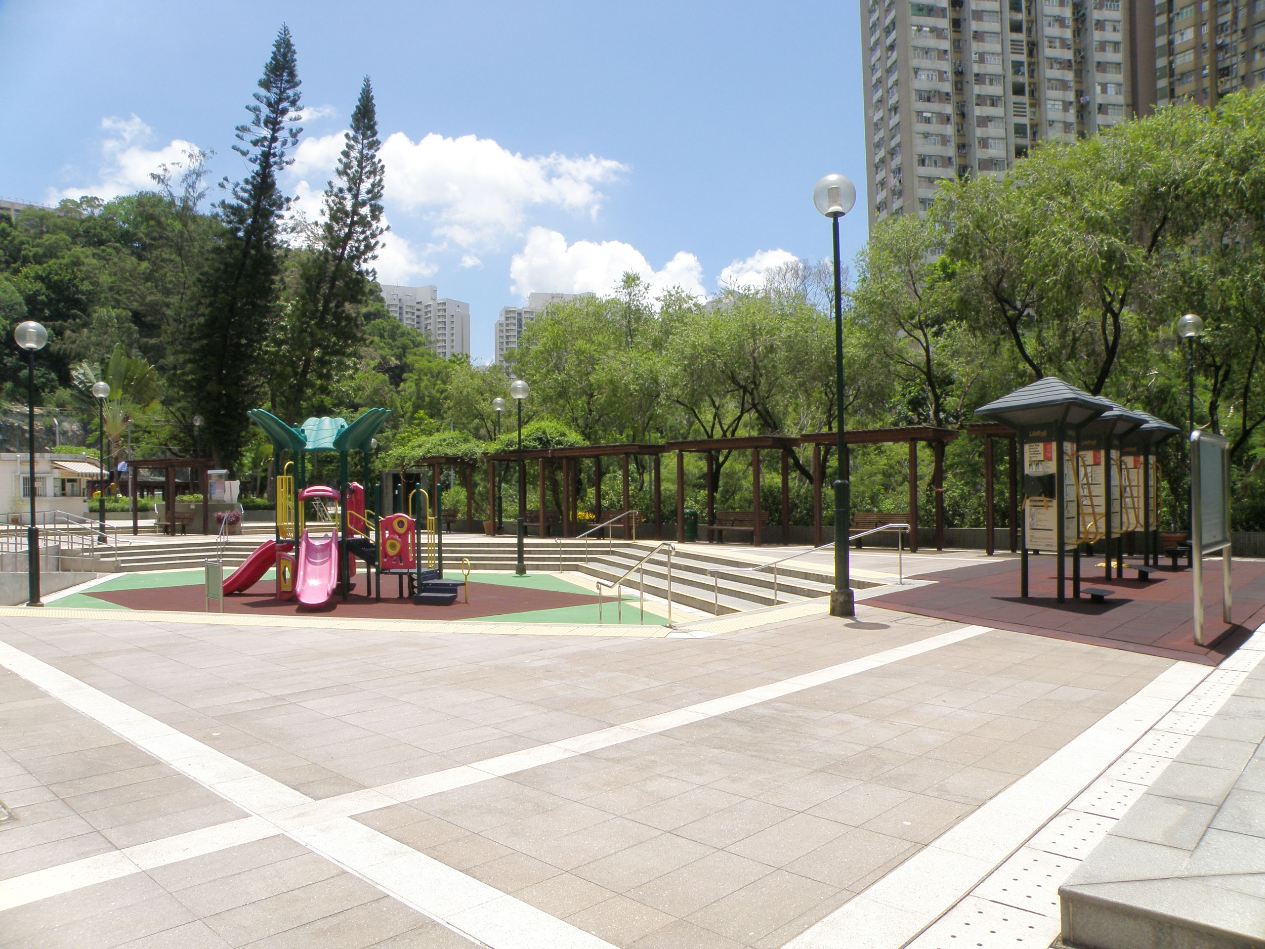 Hui Ming Street Playground in Kwun Tong, Hong Kong.